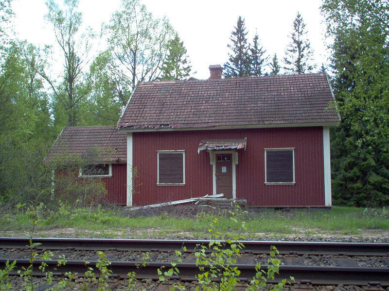 Abandoned railway station building at Hyrkäs (a village of Muhos, Finland, municipality), on Oulu–Kontiomäki main line. The building is privately owned.